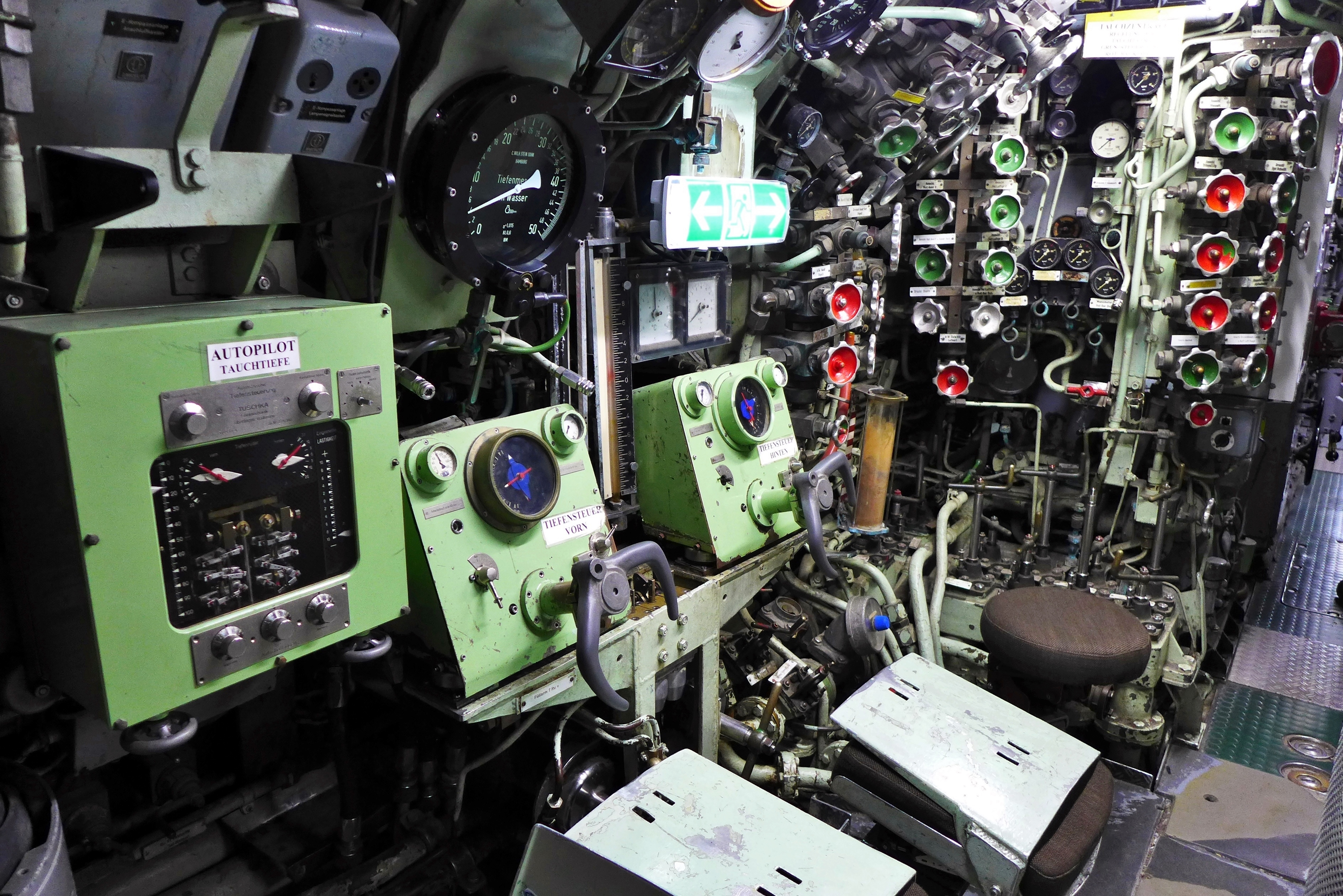 View of the control room of German submarine U-9 (S188), on museum display at Technik Museum Speyer, Rhineland-Palatinate, Germany.